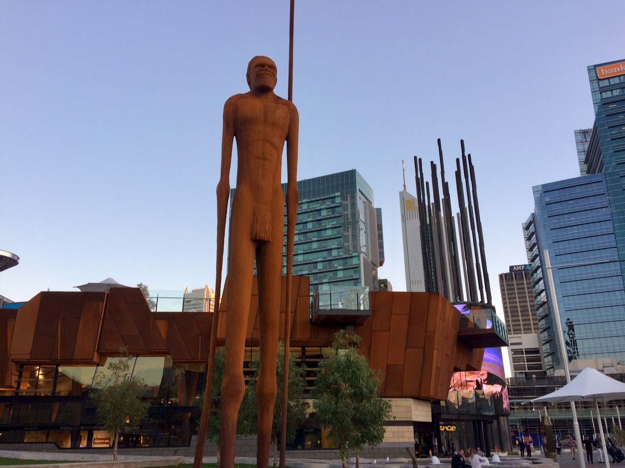 The Wirin sculpture at Perth's Yagan Square